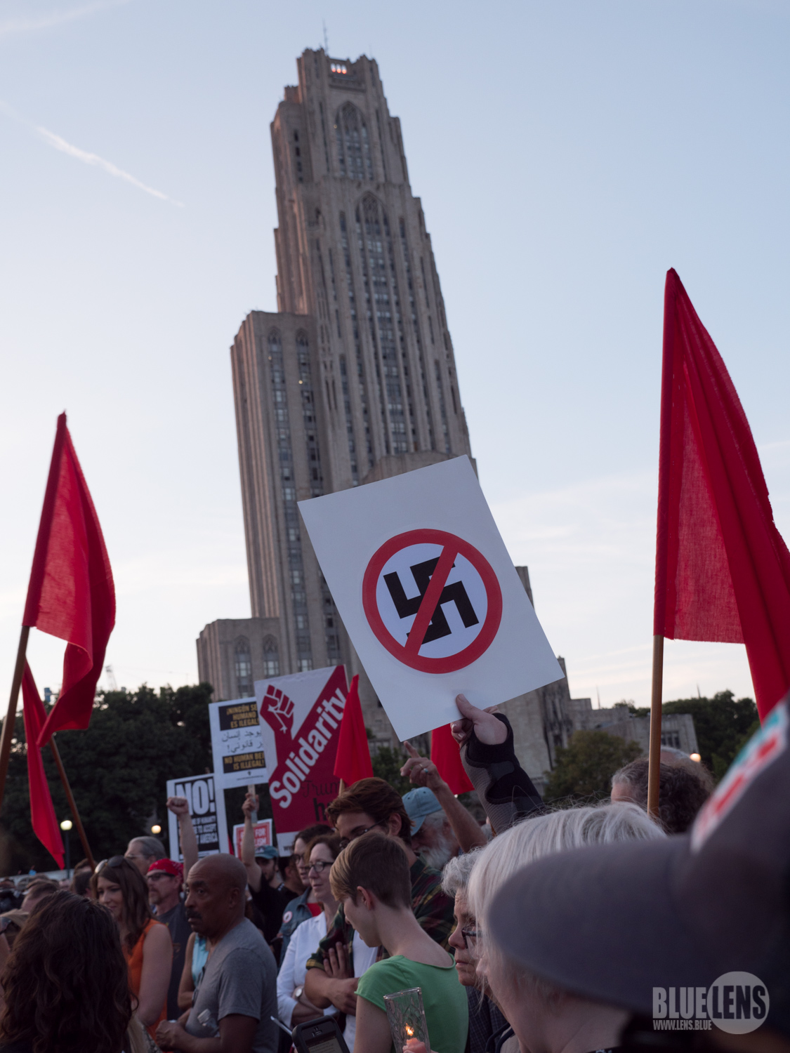 Pittsburghers gathered together in Schenley Plaza to mourn for the dead and injured while organizing against hate, bigotry, white supremacy, and so much more. Photo by Mark Dixon. License is Creative Commons with Attribution.